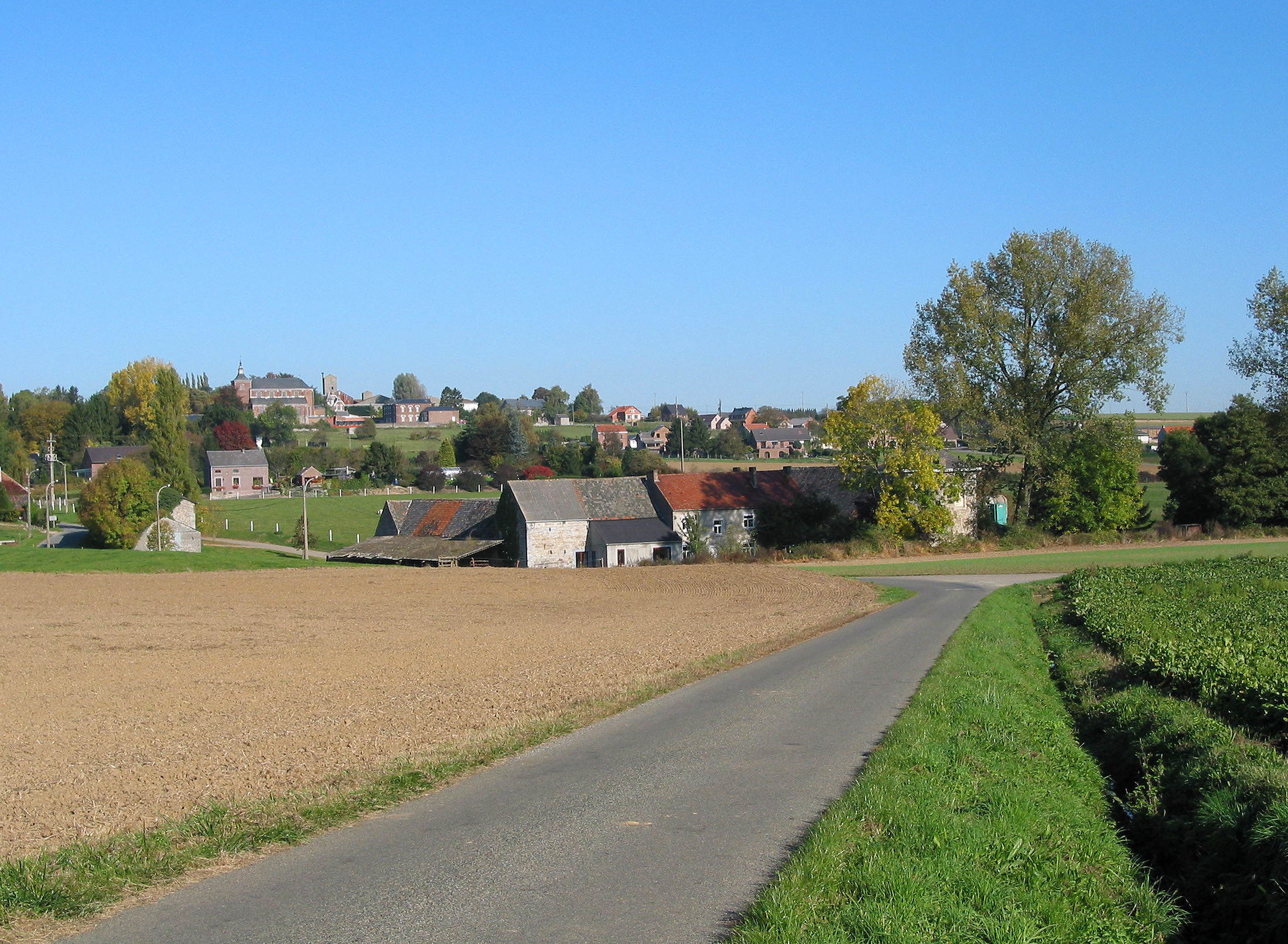 Héron (Belgium), the village int he autumn.